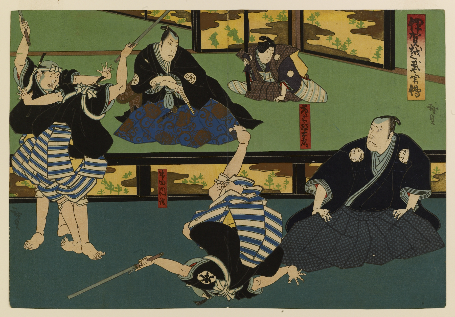 Two swordsmen with blunt swords are locked in combat, and a third has taken a tumble, under the watchful eyes of Karaki Masaemon and Honda Naiki. This is an episode from a popular story of revenge--how the son of a murdered samurai tracked the killer over all Japan and finally confronted him at Iga Pass. The drama, first performed in 1777, was based on a historical incident of the 1630s.